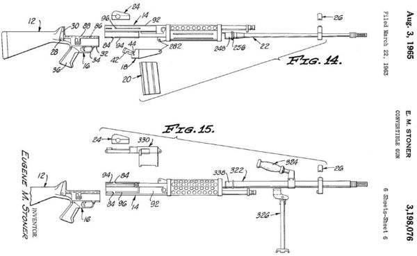 Patent of Stoner 63